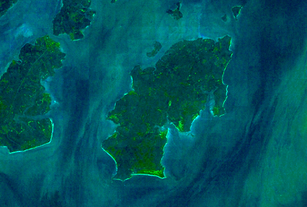 Roxa Island Bijagos second version as of 2010-10-04: colors edited (first step: +80 hue +80% saturation +10% brightness. second step: +33% contrast)